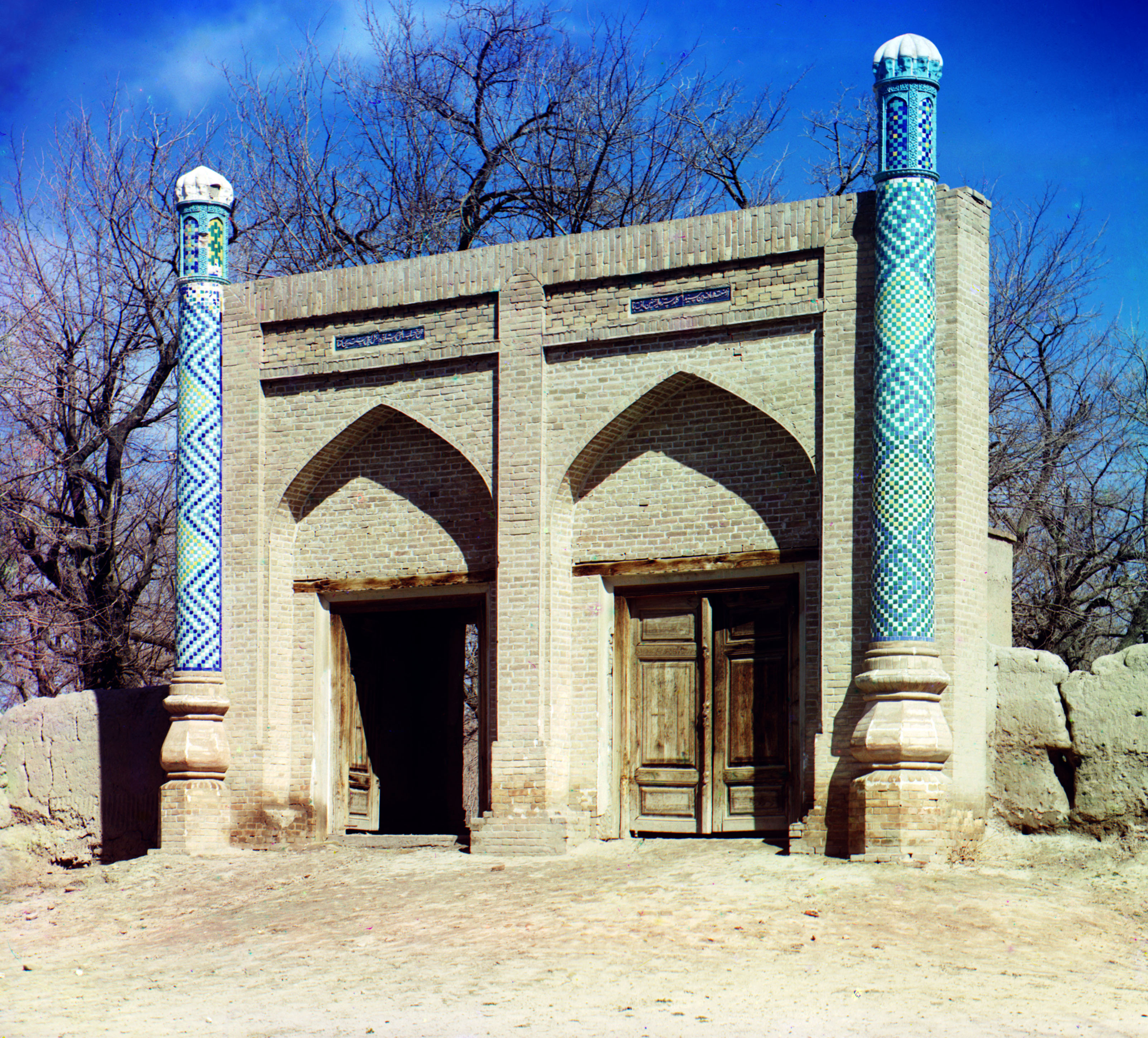 Entrance into Namazga mosque. Samarkand